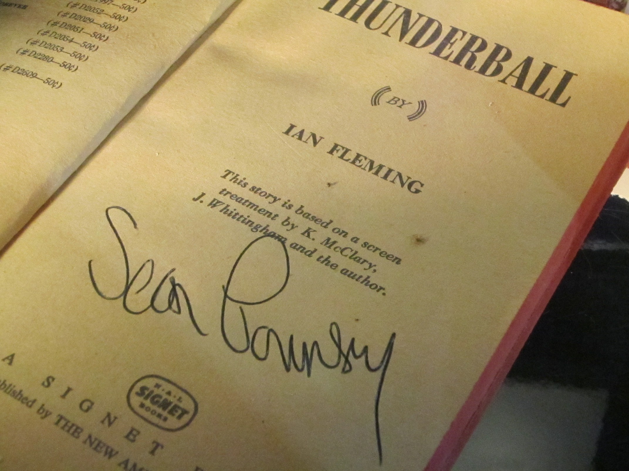 Beaulieu National Motor Museum, Hampshire, England